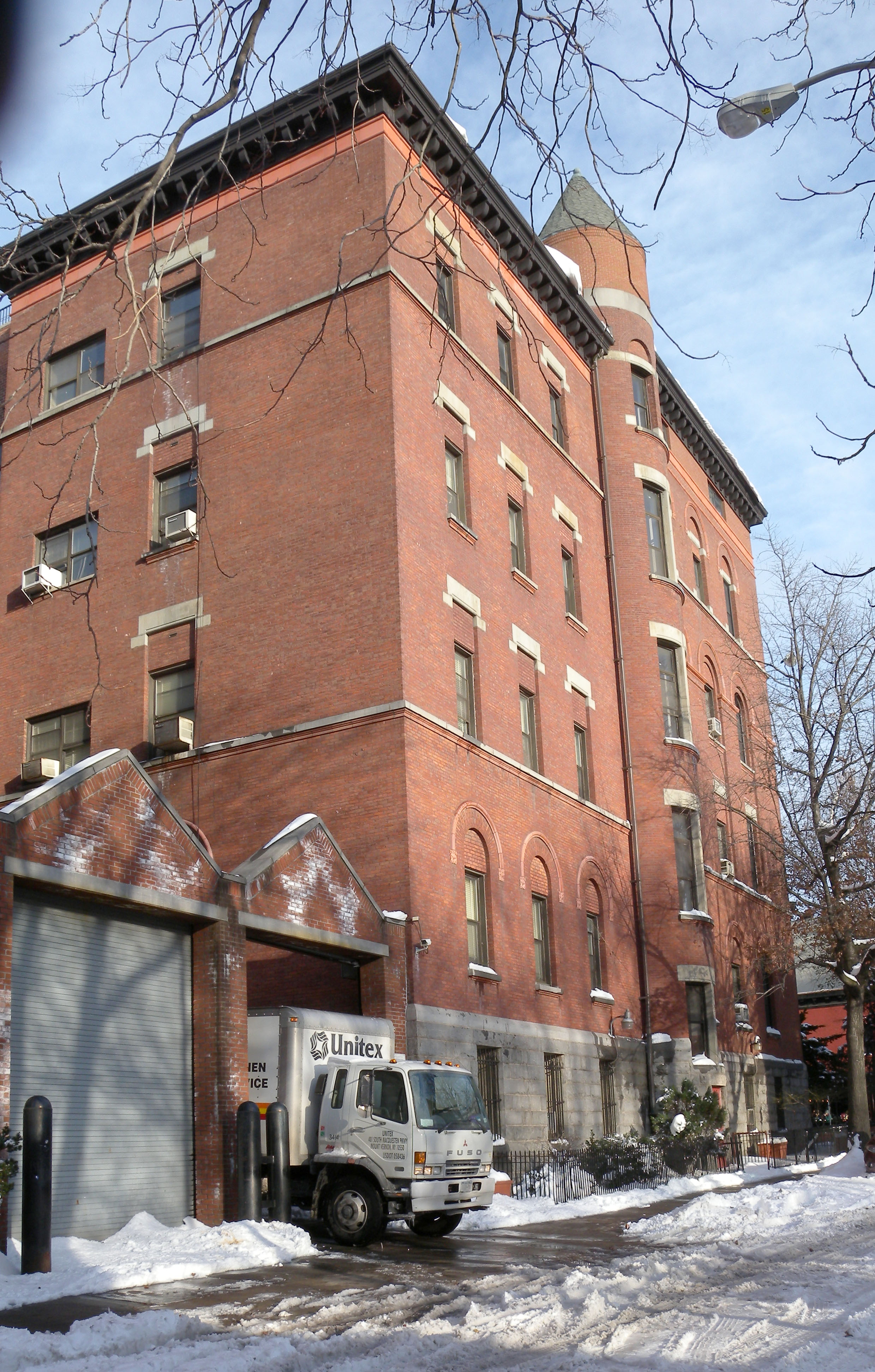 Looking east along Warren Street towards Henry Street an old Long Island College Hospital building now housing community health operations. EXIF location is too far east due to photographer's error.